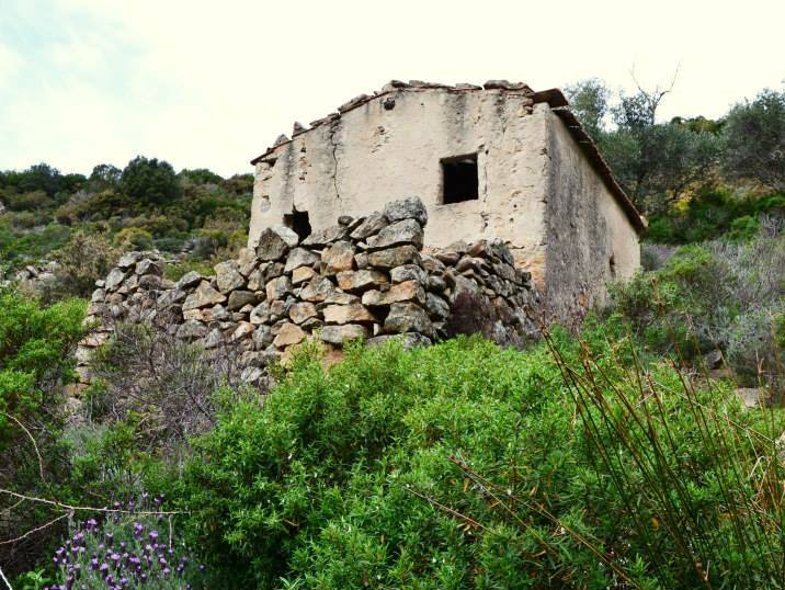 elba island